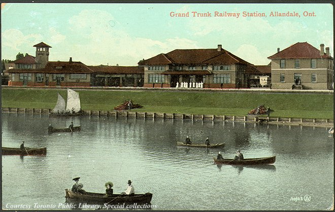 Grand Trunk Railway Station, Allandale, Ontario, Canada (1910) Creator: Valentine & Sons' Publishing Co. Ltd. Date: 1910 Identifier: PC-ON 117 Format: Postcard Rights: Public domain Courtesy: Toronto Public Library This photo was taken circa 1910.